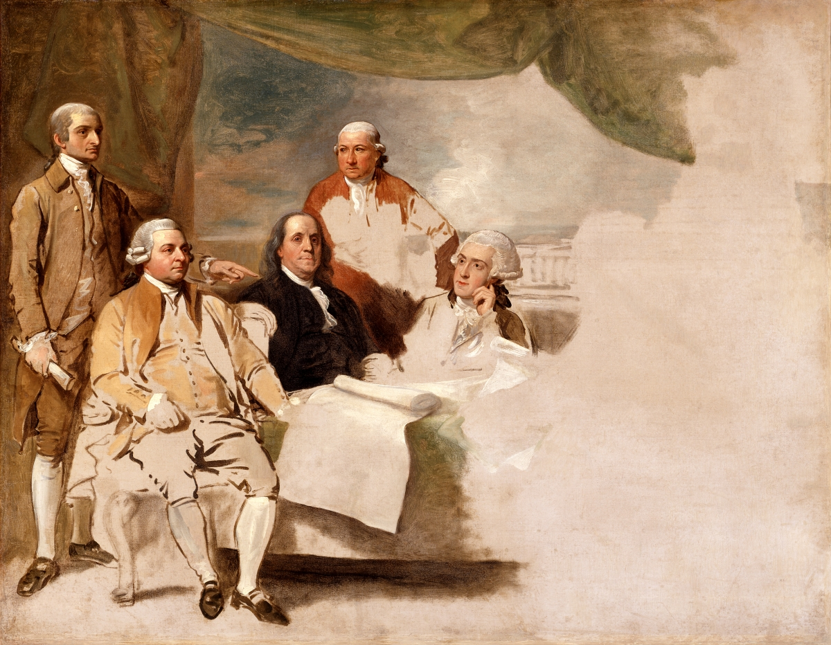 Benjamin West, American Commissioners of the Preliminary Peace Agreement with Great Britain, 1783-1784, London, England. (oil on canvas, unfinished sketch), Winterthur Museum, Winterthur, Delaware, gift of Henry Francis du Pont. From left to right: John Jay, John Adams, Benjamin Franklin, Henry Laurens, and William Temple Franklin. The British commissioners refused to pose, and the picture was never finished.